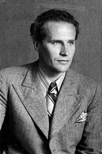 Photograph of the Finnish opera singer Alfons Almi (1904–1991) .